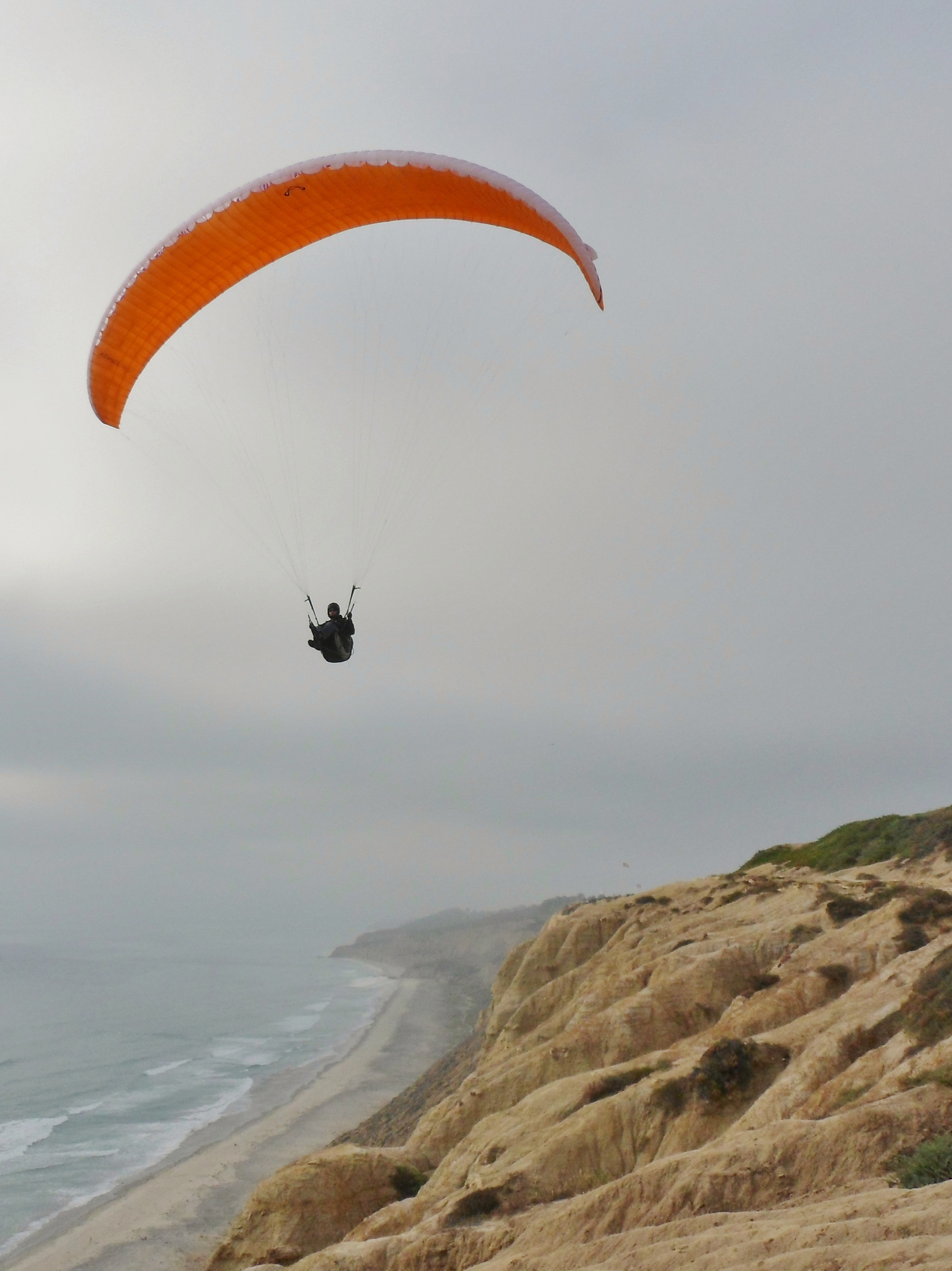 A paraglider pilot uses ridge lift to soar along the cliffs at Torrey Pines State Reserve near San Diego, California. The steady sea breeze from the Pacific Ocean is deflected upward by the steep cliffs creating an invisible wave of rising air that the pilot uses to maintain altitude, like a surfer rides a wave of water.